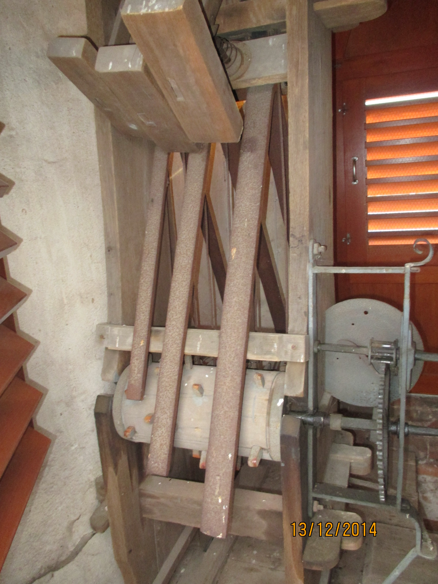 bar-bells in the church of Serno